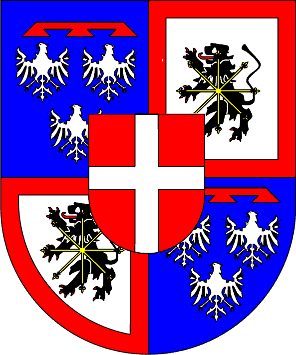 coats of arms of the county of Leiningen-Dagsburg; 1,4: county of Leiningen; 2,3: county of Dagsburg